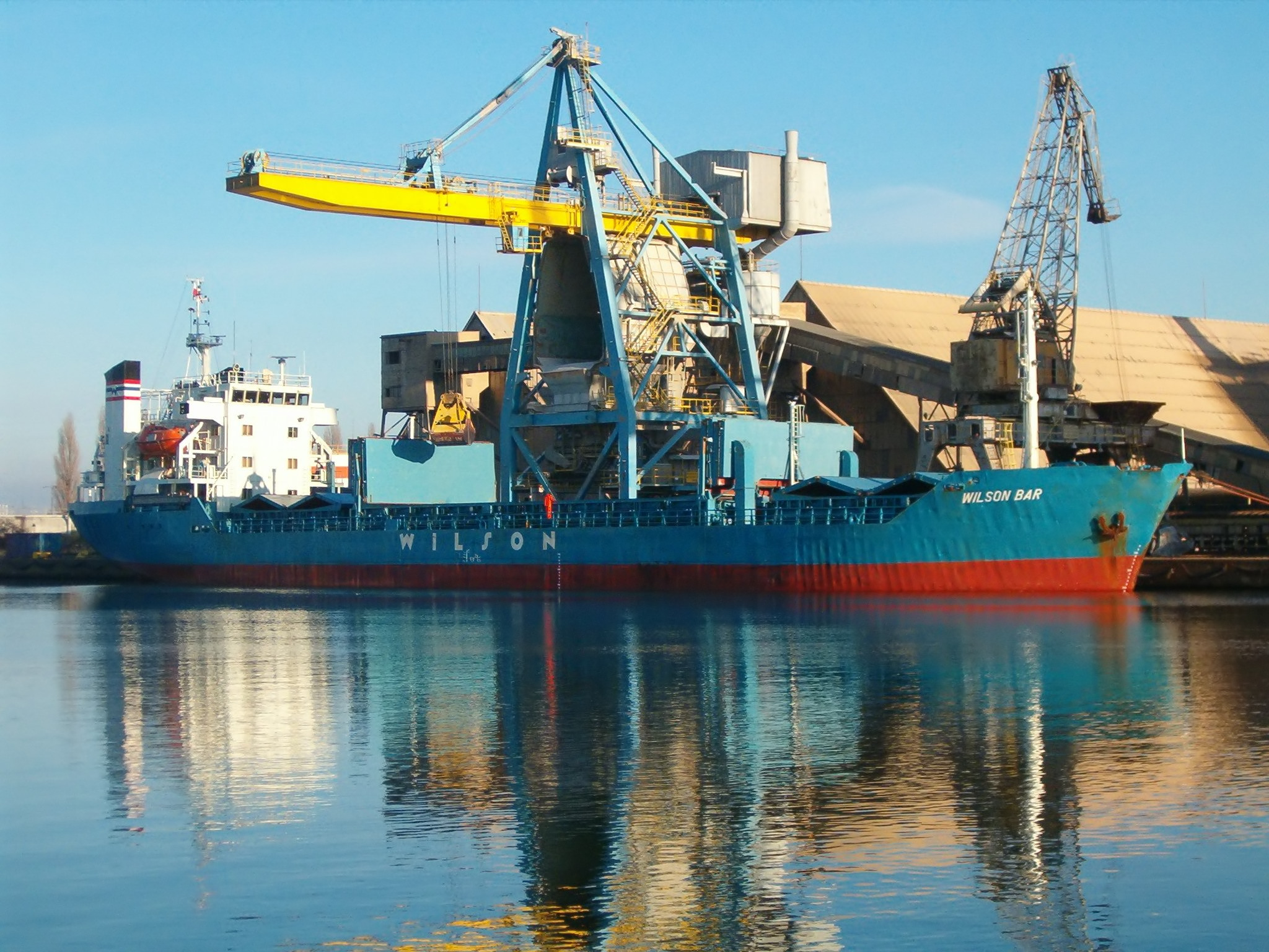 Bulk Cargo Ship 'Wilson Bar' in Gdansk, Poland.